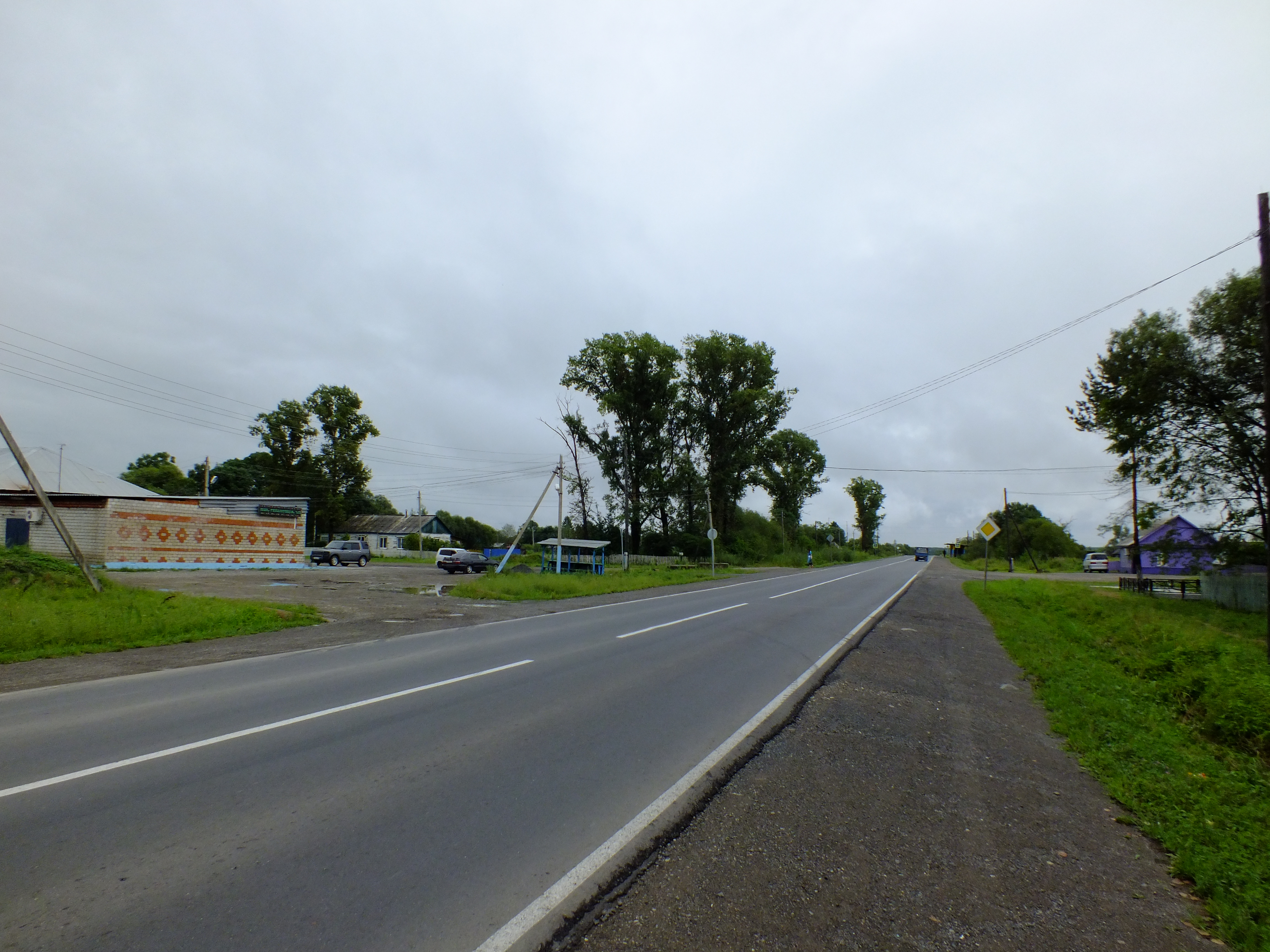 Fedosyevka Primorskiy kray